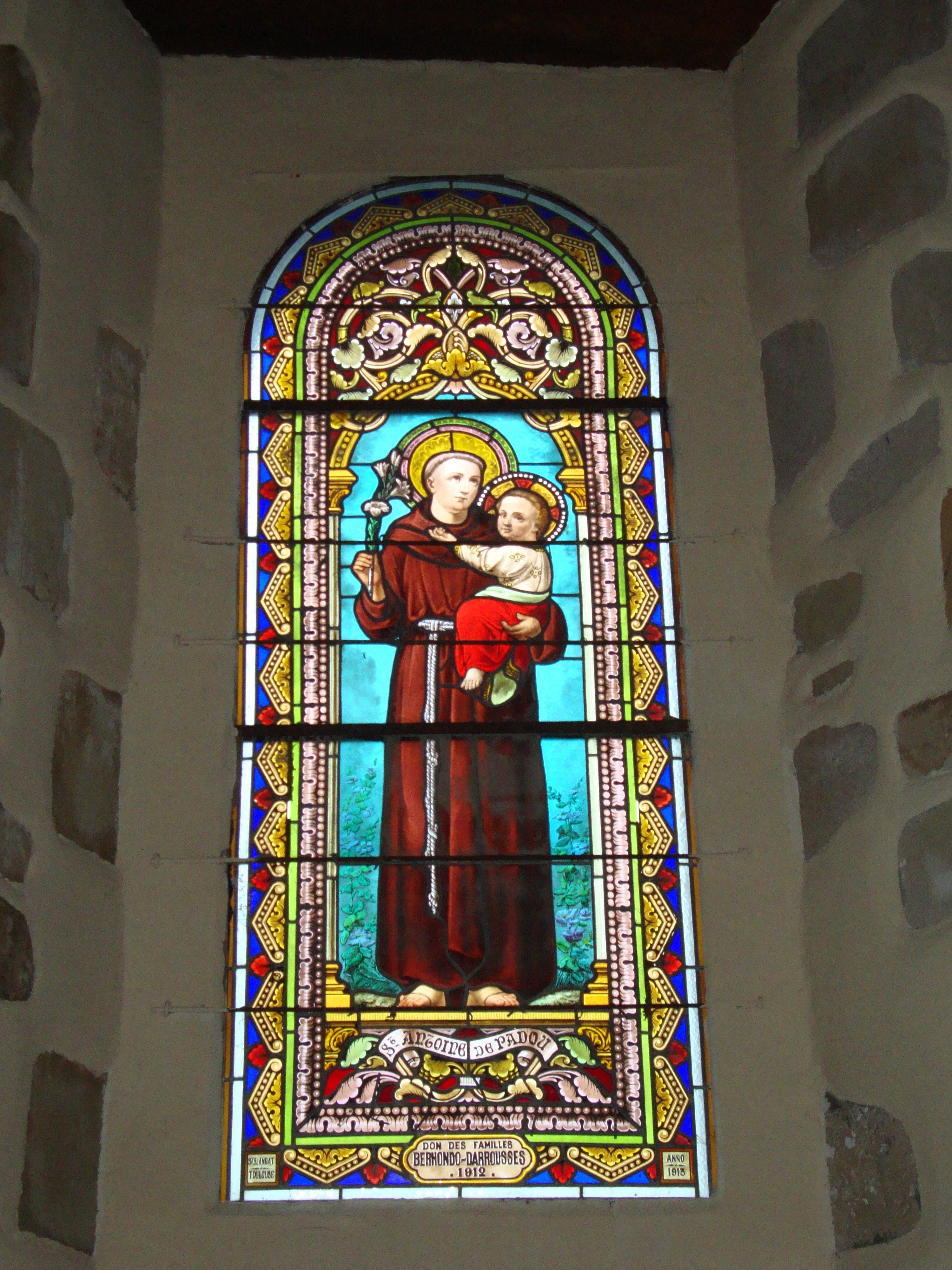 Domezain (Domezain-Berraute, Pyr-Atl,Fr) stained glass window of Saint Anthony of Padua, signature: "ST. BlANCAT TOULOUSE ANNO 1913"